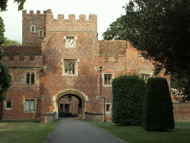 Photograph